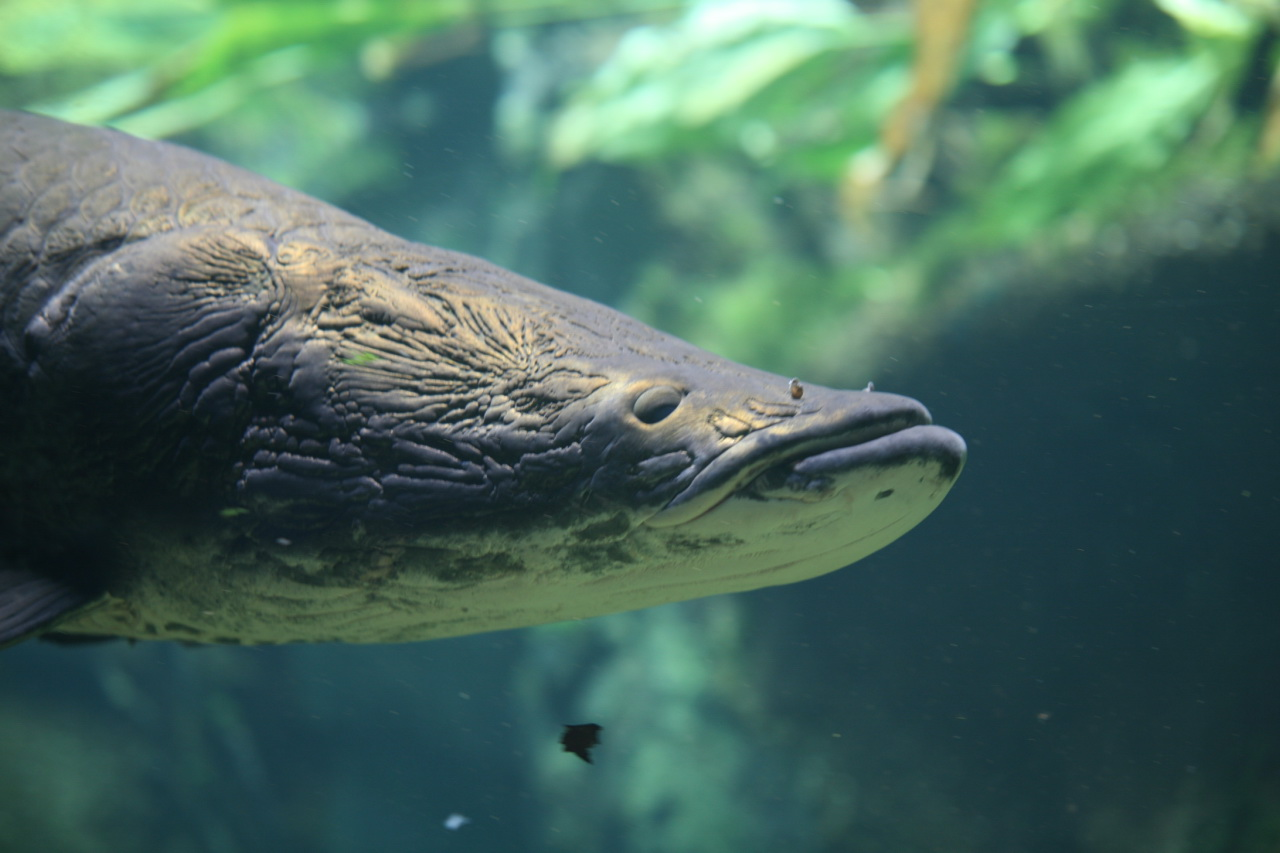 "Arapaima gigas" The arapaima has also been introduced for fishing in Thailand and Malaysia. It is also considered an aquarium fish, although it obviously requires a large tank and ample resources. Fossils of arapaima or a very similar species have been found in the Miocene Villavieja Formation of Colombia. The tongue of this fish is thought to have medicinal qualities in South America. It is dried and combined with guarana bark, which is grated and mixed into water. Doses of this are given to kill intestinal worms.